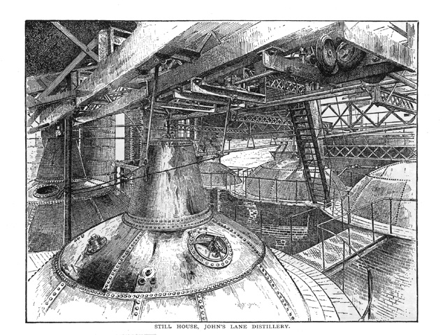 An image of the Still house at Powers John's Lane Distillery circa 1887.